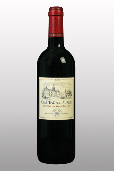 bottle of chateau des Laurets